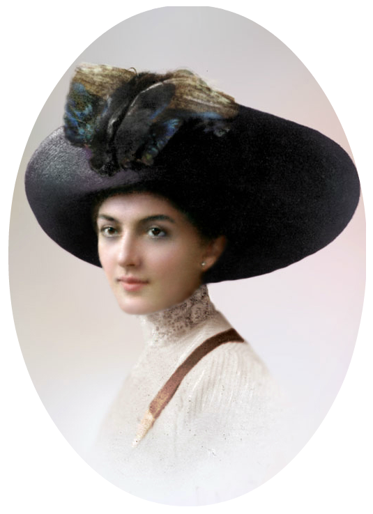 მერი შერვაშიძე ერისთავი